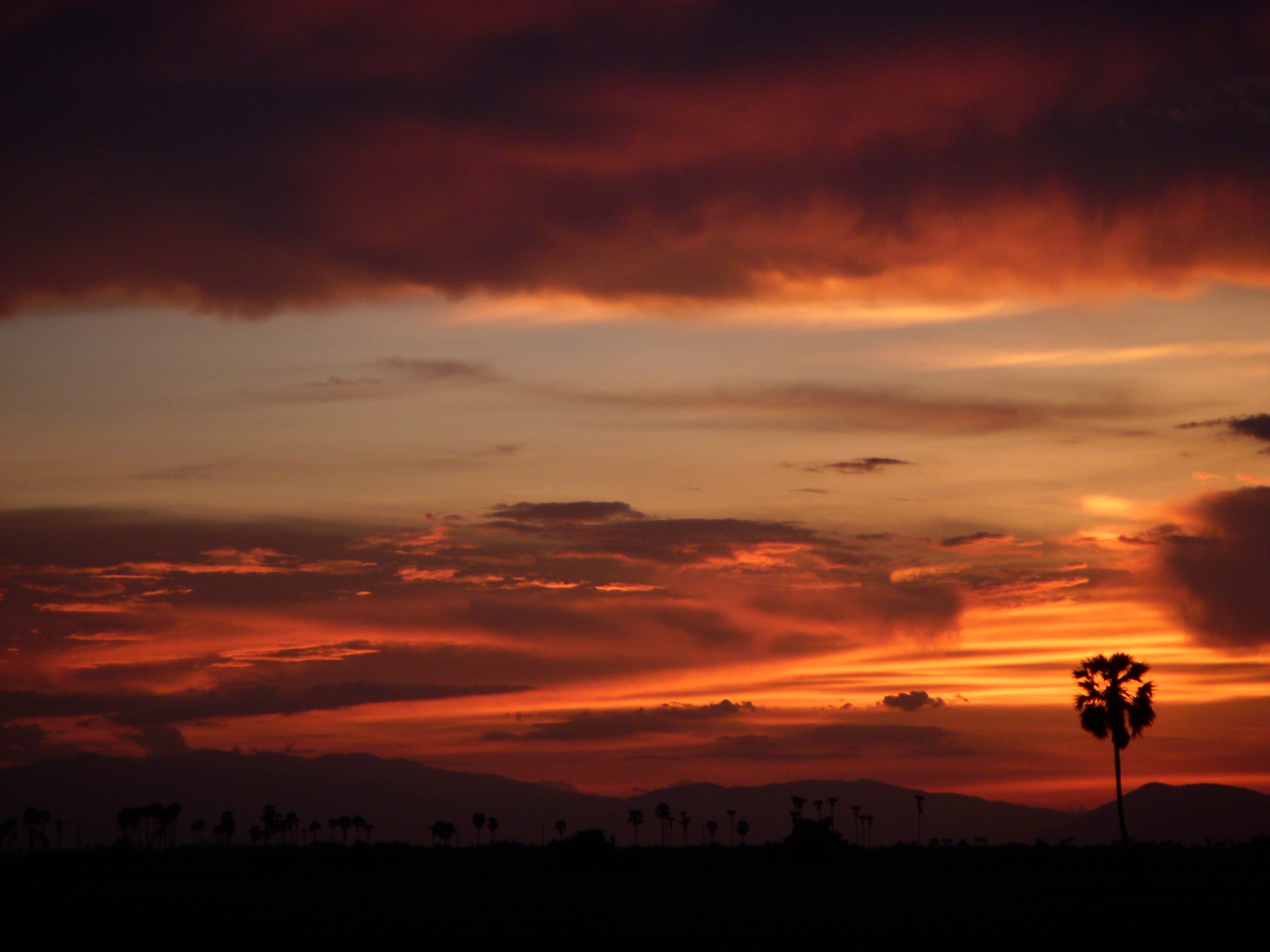 Sunset over the northern Cardamom Mountains. Kampong Chhnang, dry season 2009.